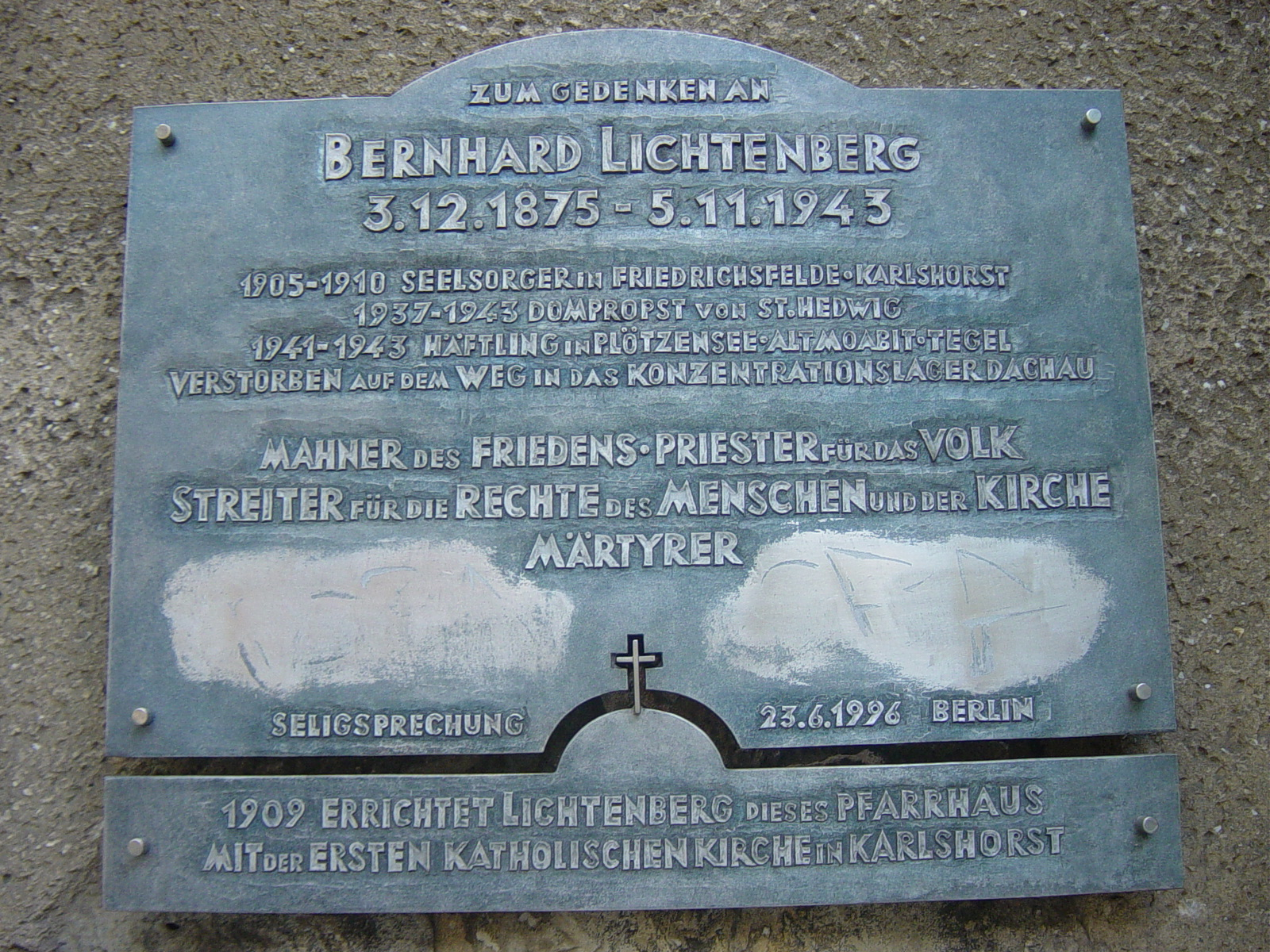 Memorial tablet for Bernhard Lichtenberg at the rectory built by him in Berlin-Karlshorst, Gundelfinger Straße 36.